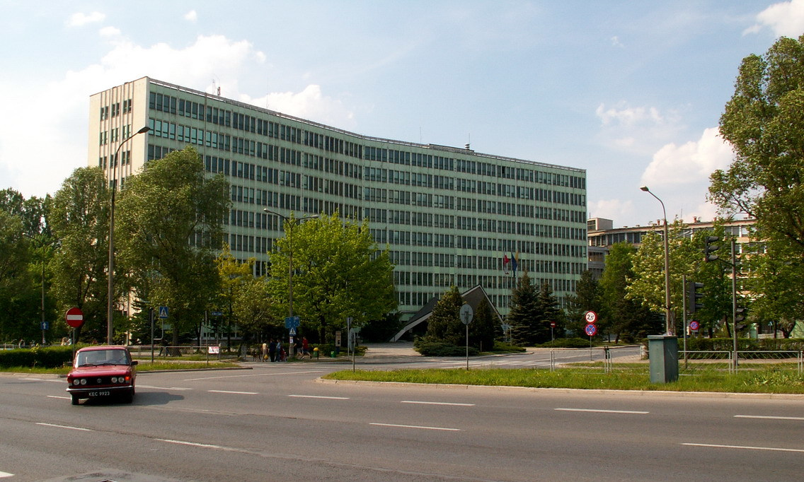 Voivodship Office (Kielce, Poland)